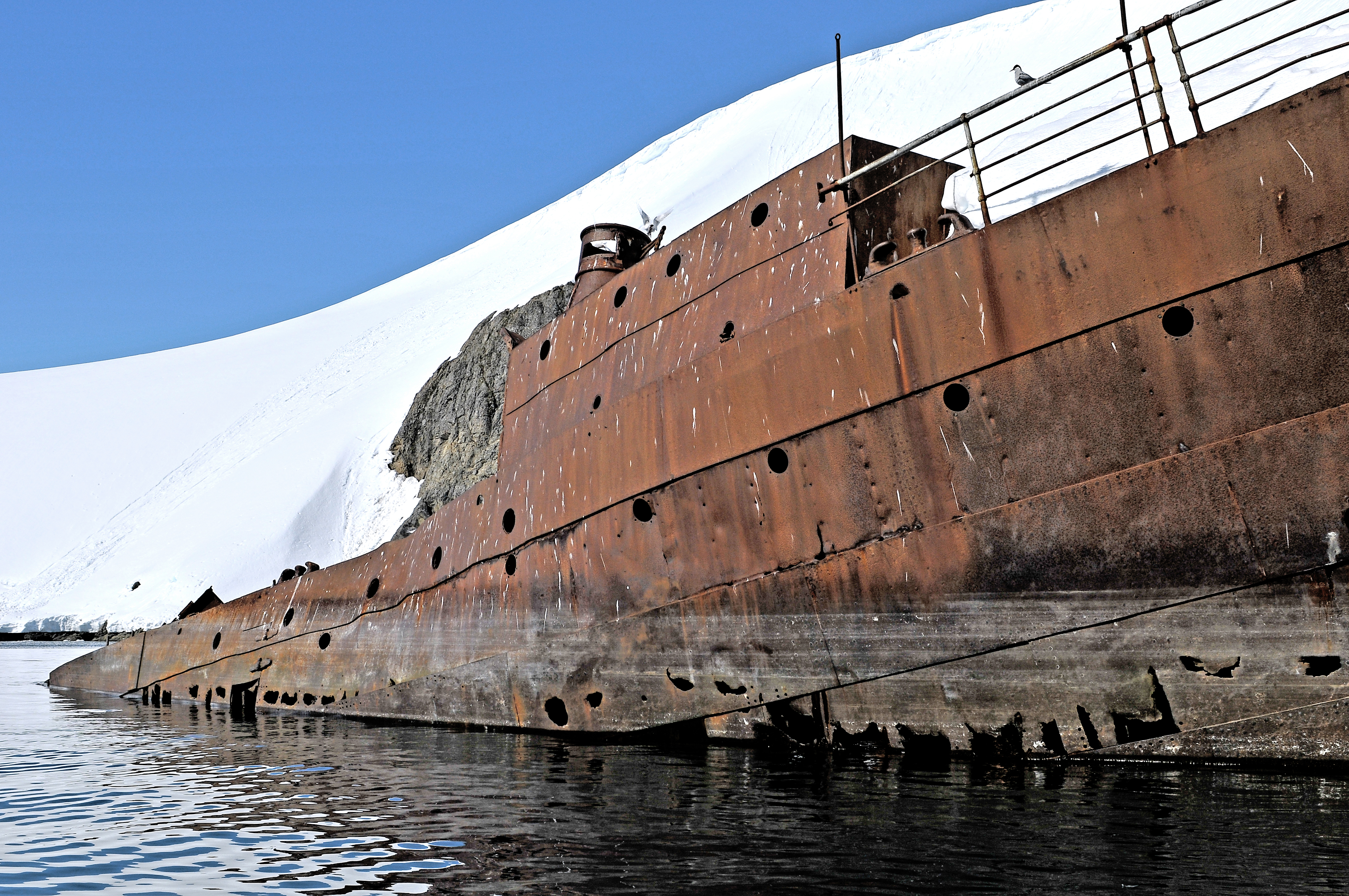 The "Guvernoren" wreckage (1915). Nansen Island, Antarctica